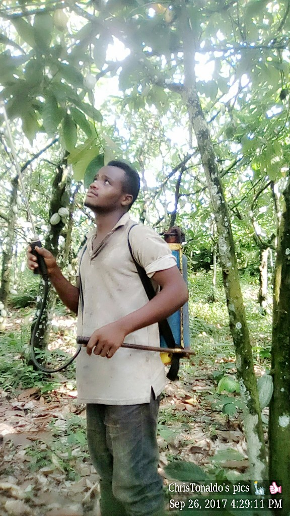 This is an image with the theme "Africa on the Move or Transport" from: Cameroon